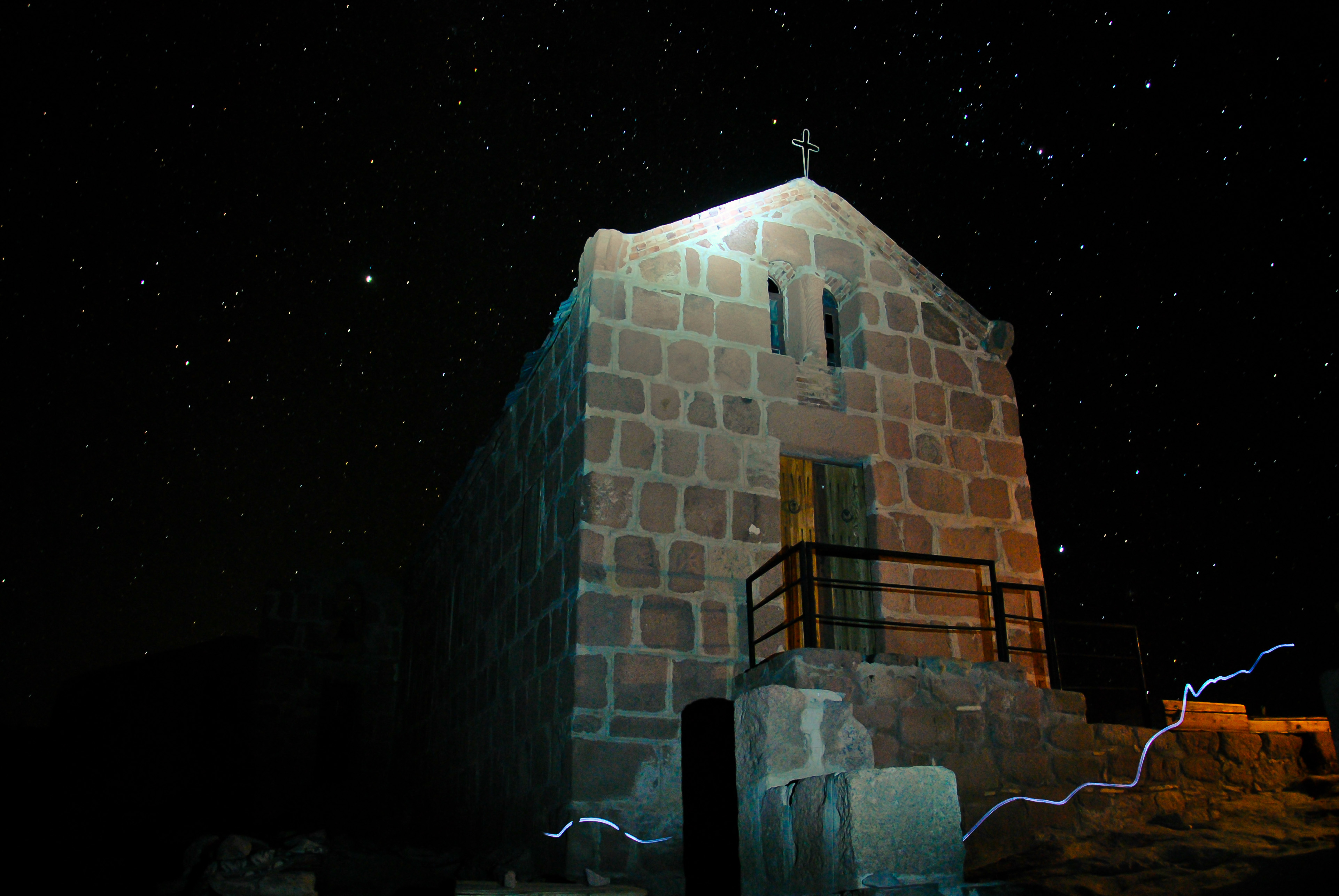 A Greek Orthodox Chapel at the top of Mount Sinai - Egypt